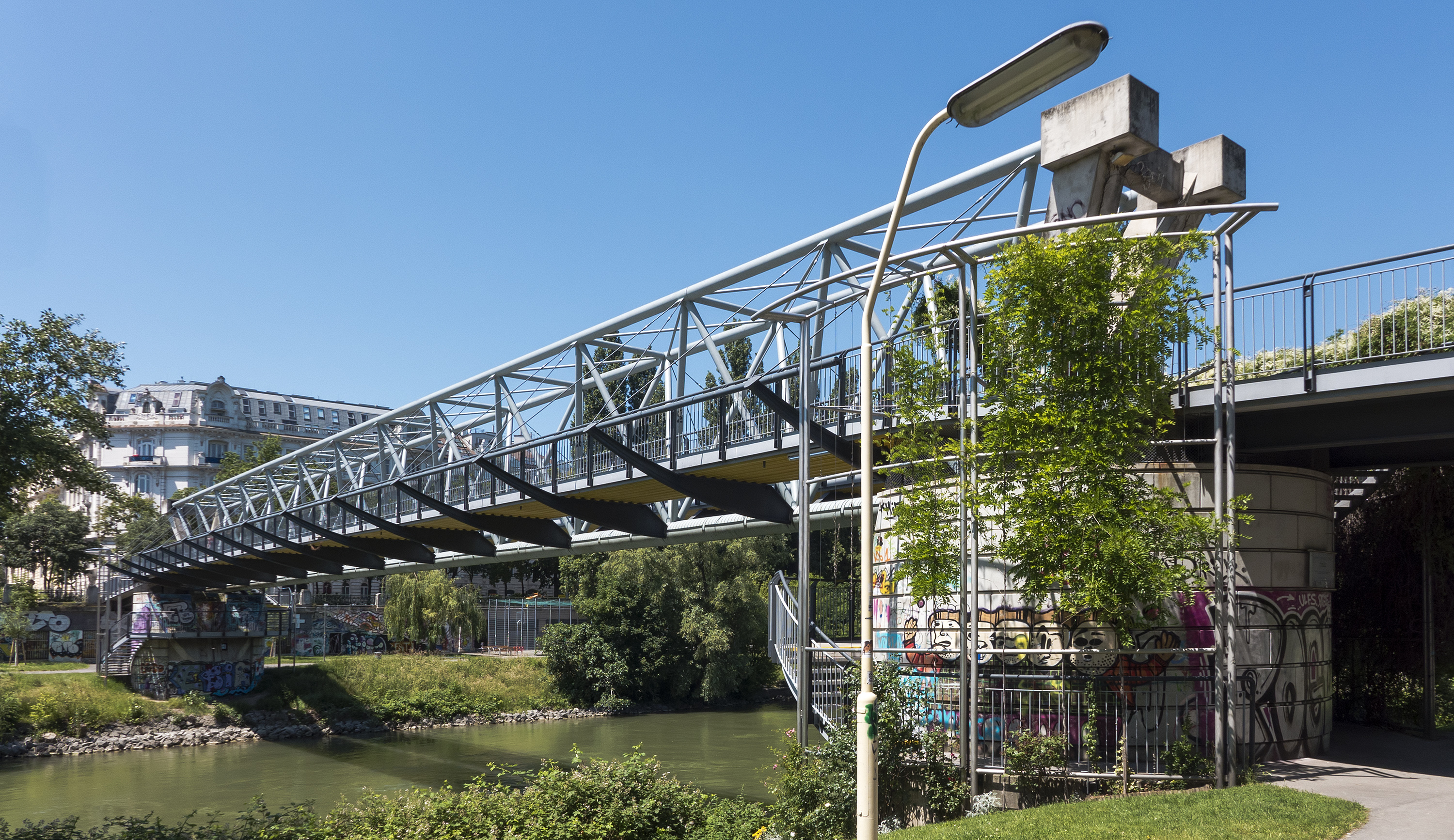 Bridge Siemens-Nixdorf-Steg in Vienna 2, looking to the west